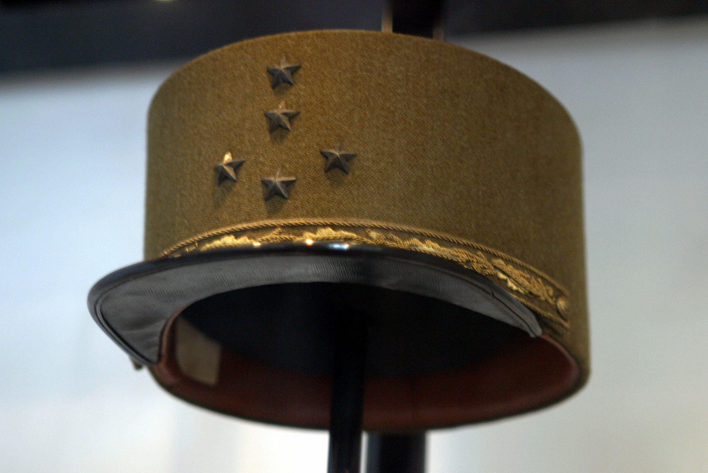 This image was taken at the Musée de l'Armée, Paris.